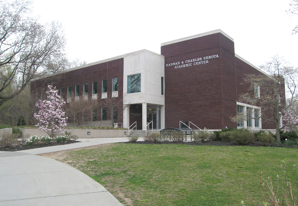 New York Institute of Technology College of Osteopathic Medicine: Hannah and Charles Serota Academic Center: Housing the Office of Pre-Clinical Sciences, Office of Clinical Sciences, Office of Admissions, OMM Laboratory, Office of the Registrar, various administrative offices and 2 large amphitheater lecture halls used for basic science and pre-clinical science lectures.